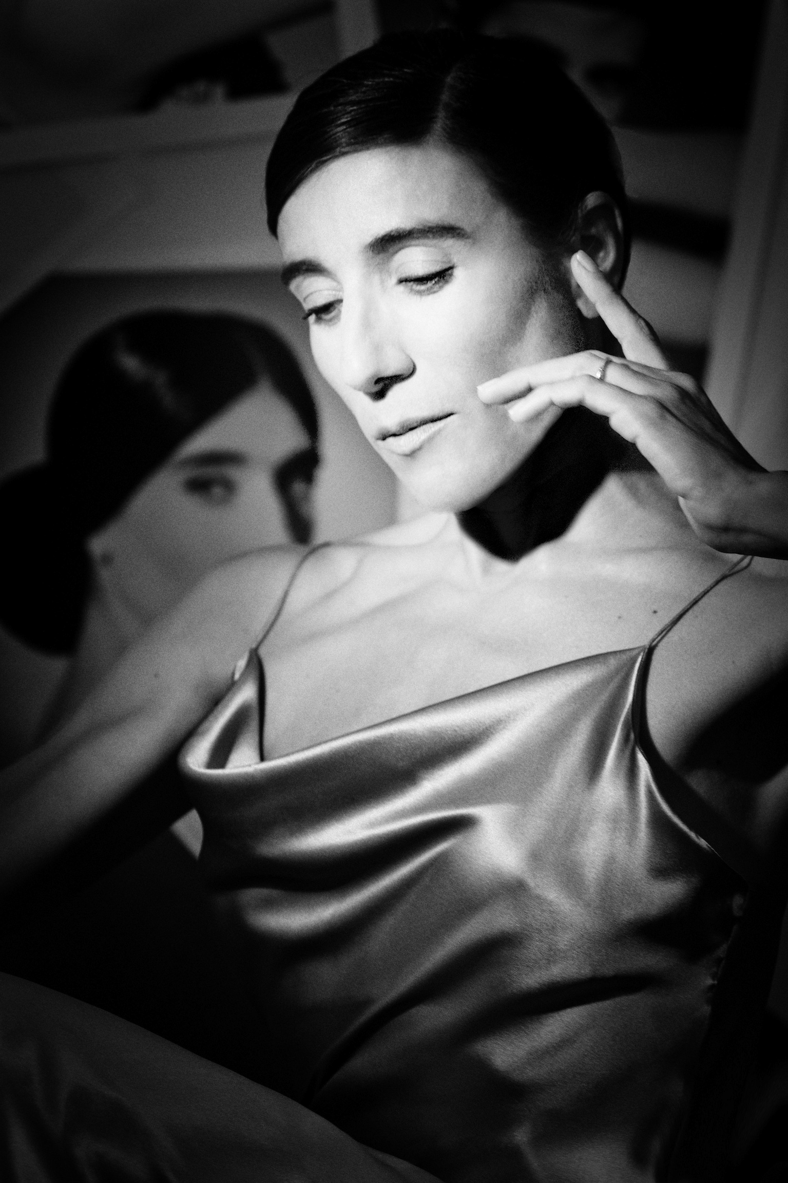 portrait of Blanca Li by Ali Mahdavi